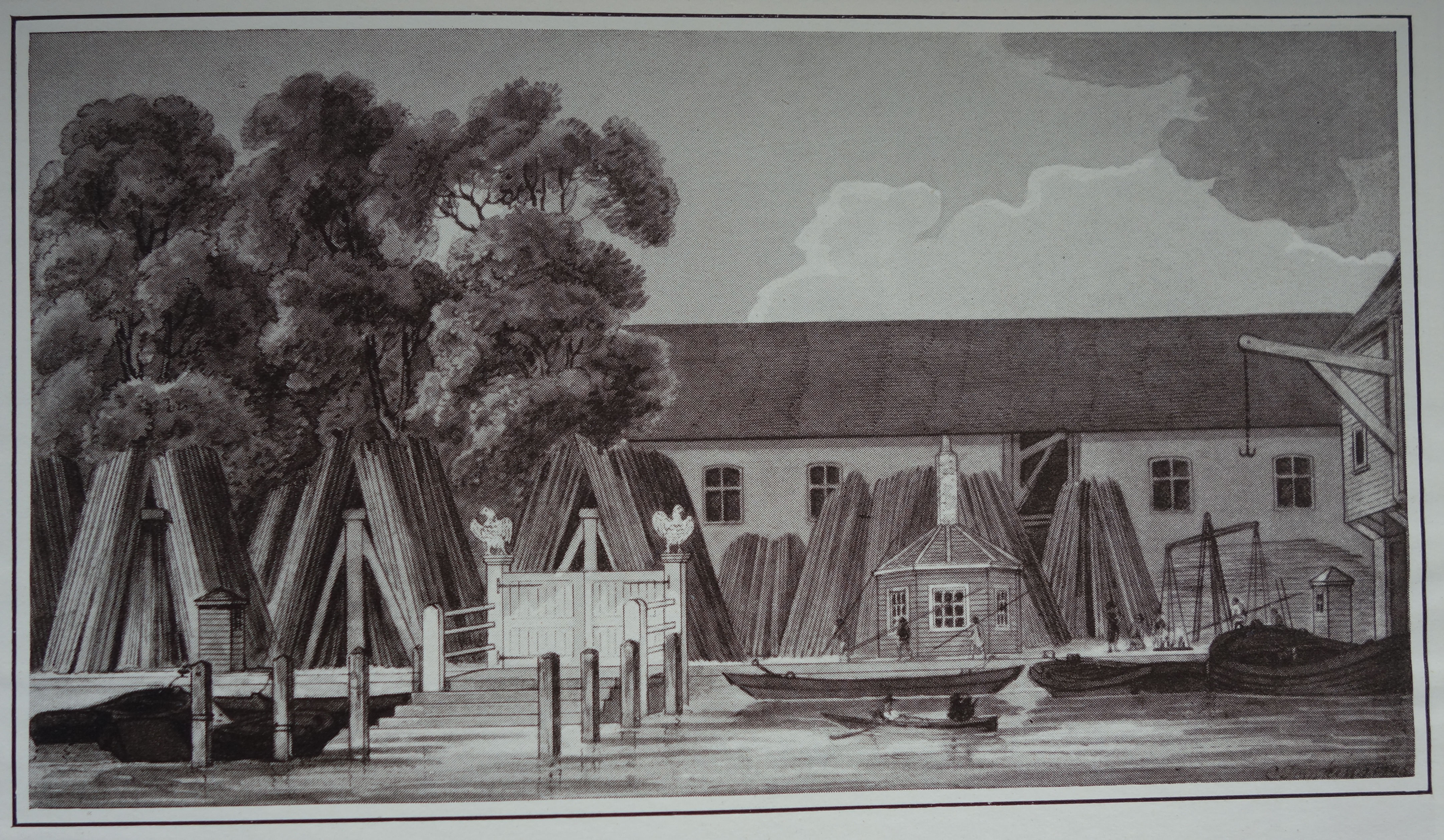 Souvenir of the British Exhibit in the Hall of Nations IPA Leipzig, May-September, 1930. English edition.Cut of page 9. A reproduction of a water colour drawing of the Steelyard, the headquarters in London of the Hanseatic Legue. The illustration shows part of the river frotage and the water gate, surmounted on each side by the emblem of the League - the German Eagle. The site is now occupied by Cannon Street Railway Station. Reproduced by kind permission of P. R. Poland & Son, Ltd.